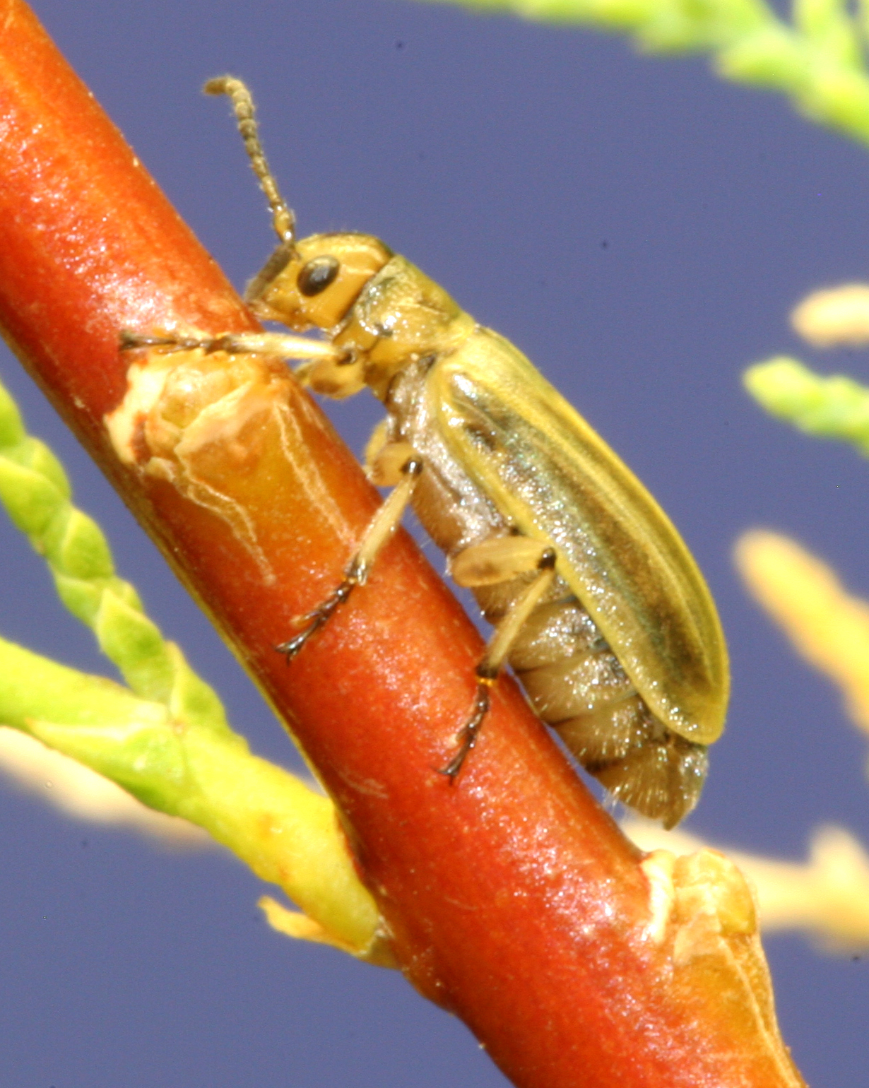 Diorhabda sublineata (Lucas) adult from near Marith, Tunisia in colony at USDA/ARS Grassland, Soil & Water Research Lab., Temple, Texas